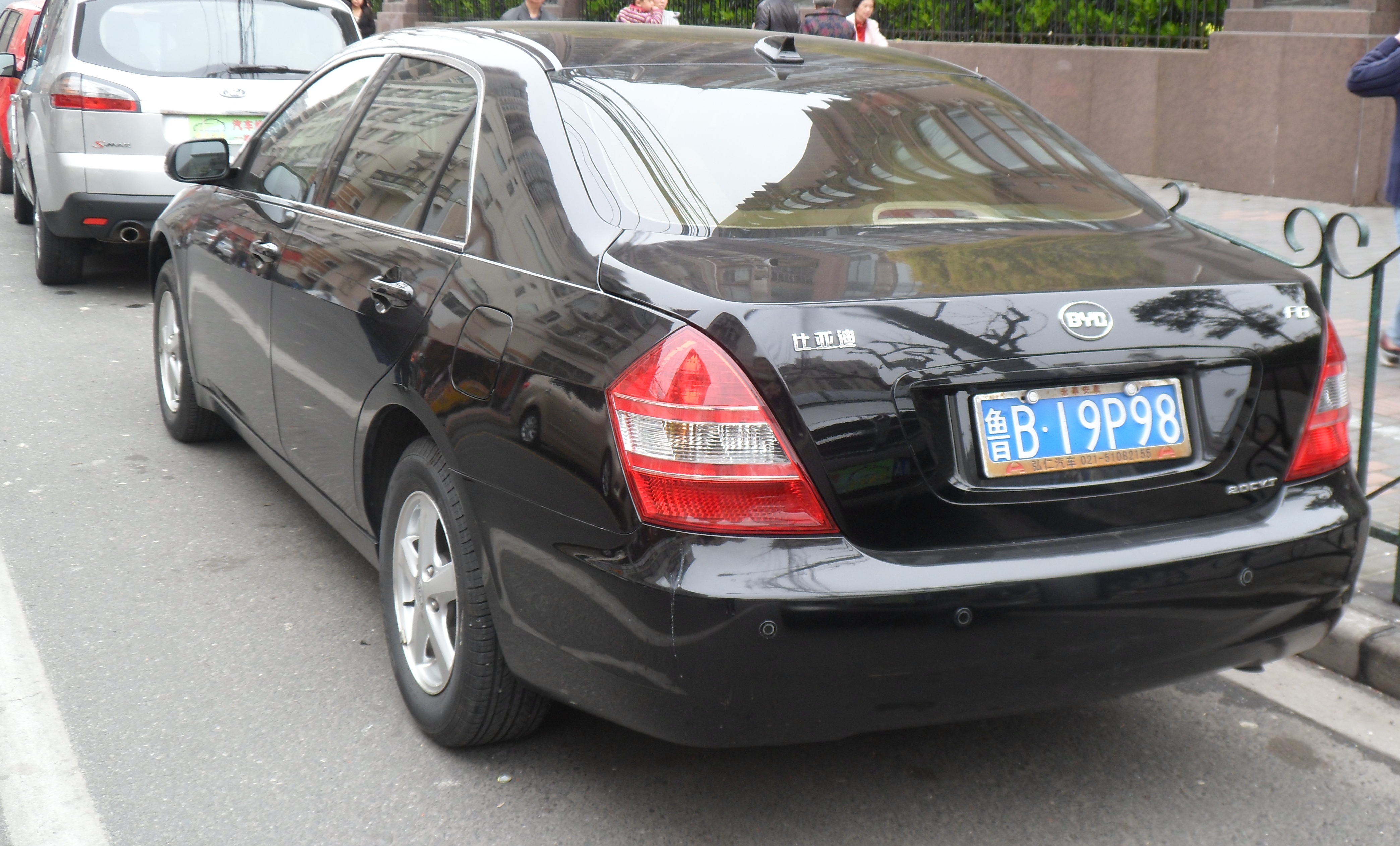 BYD F6 photographed in Shanghai, China.